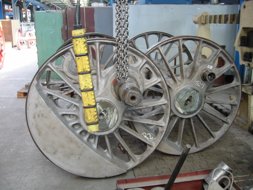 Drive and coupled wheelsets without wheel rim